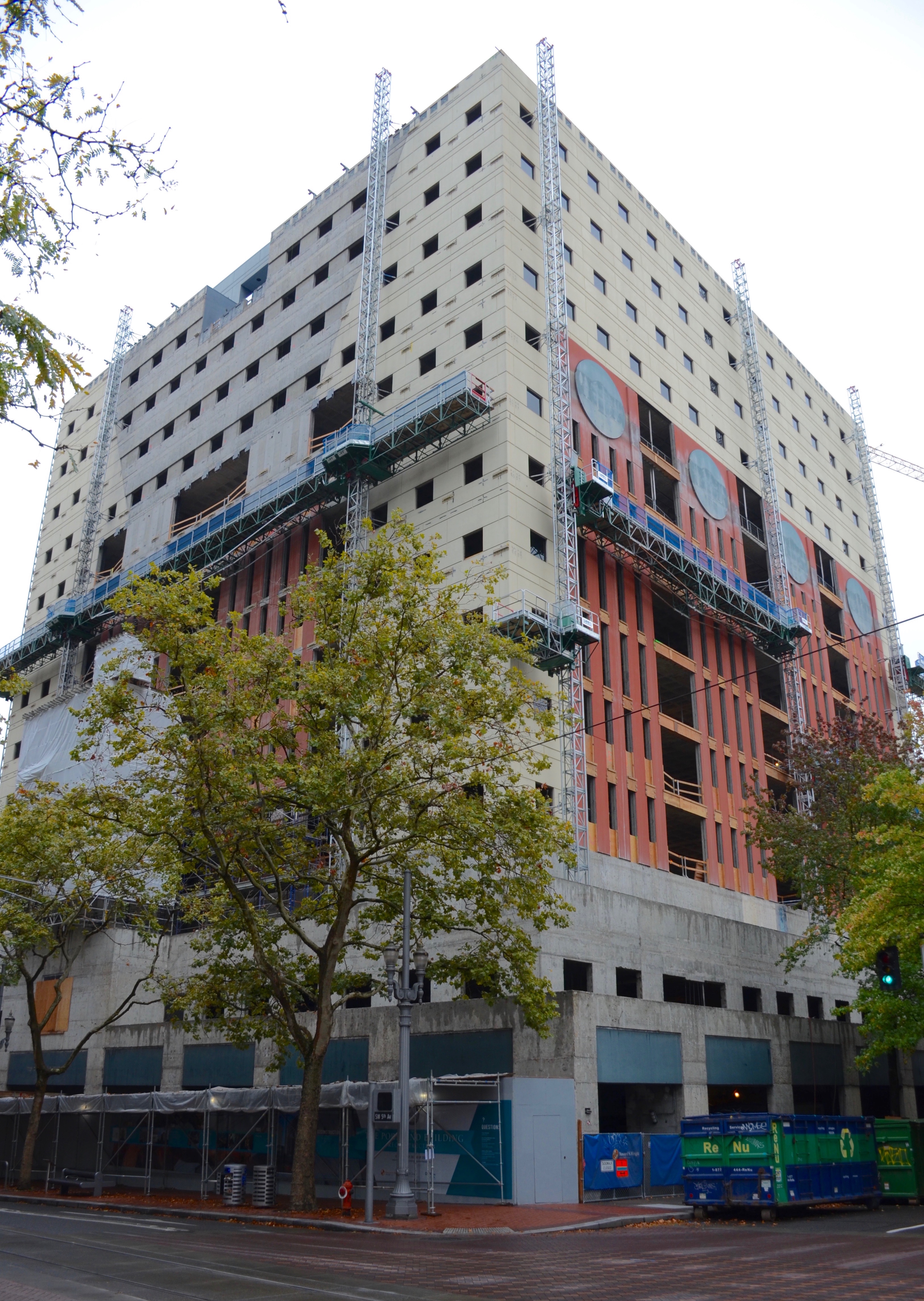 The Portland Building (in downtown Portland, Oregon), undergoing rebuilding in October 2018. The work began in December 2017 and is expected to last about three years. This view is from the west-southwest, across the intersection of 5th Avenue and Madison Street.